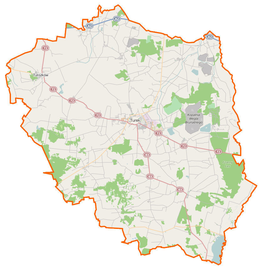 Map of Powiat turecki, Poland This map of Powiat turecki was created from OpenStreetMap project data, collected by the community. This map may be incomplete, and may contain errors. Don't rely solely on it for navigation. Border coordinates52.177718.2064←↕→18.779851.8140